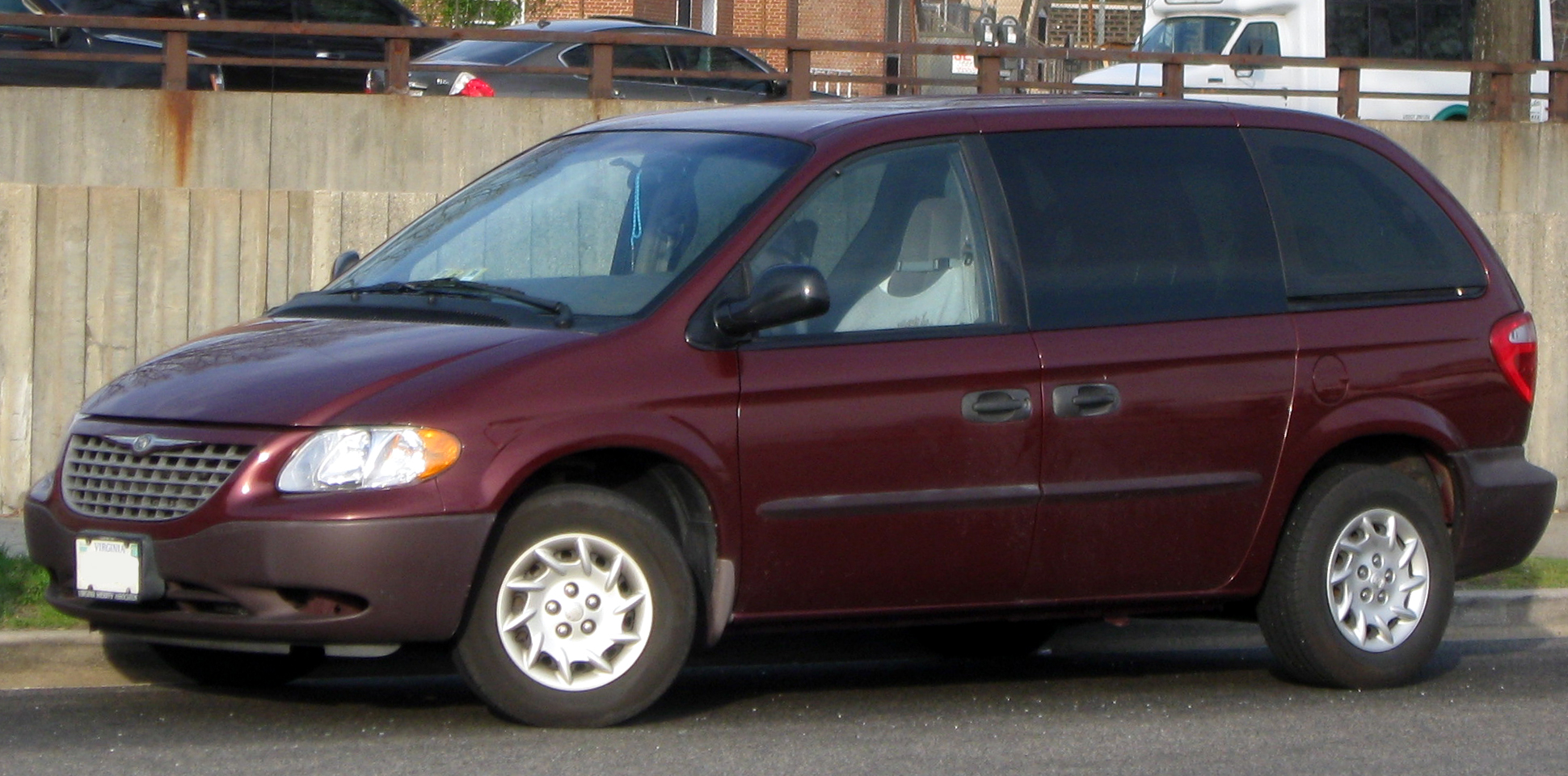 2001-2003 Chrysler Voyager photographed in Washington, D.C., USA.